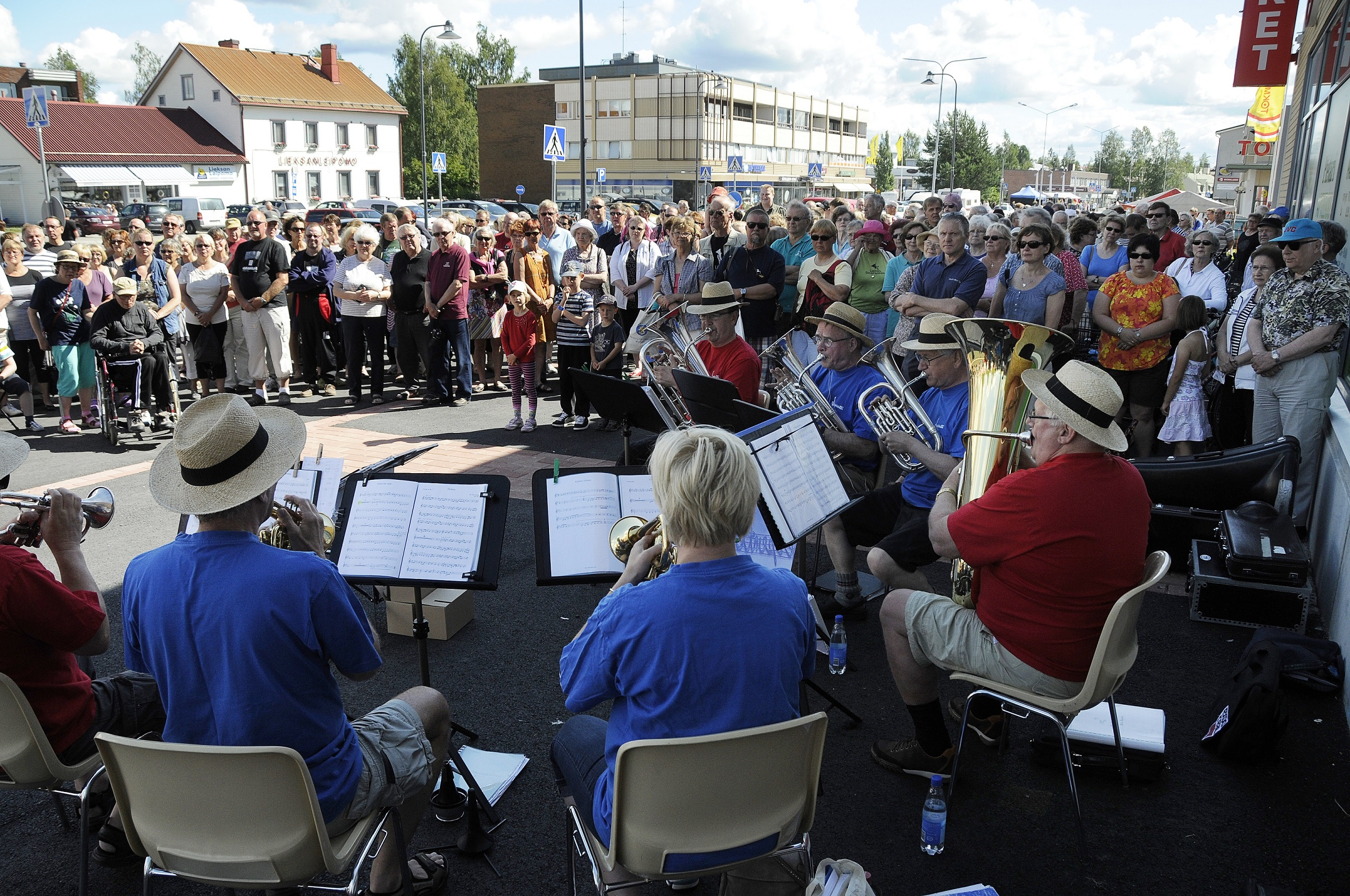 Lieksa Brass Week